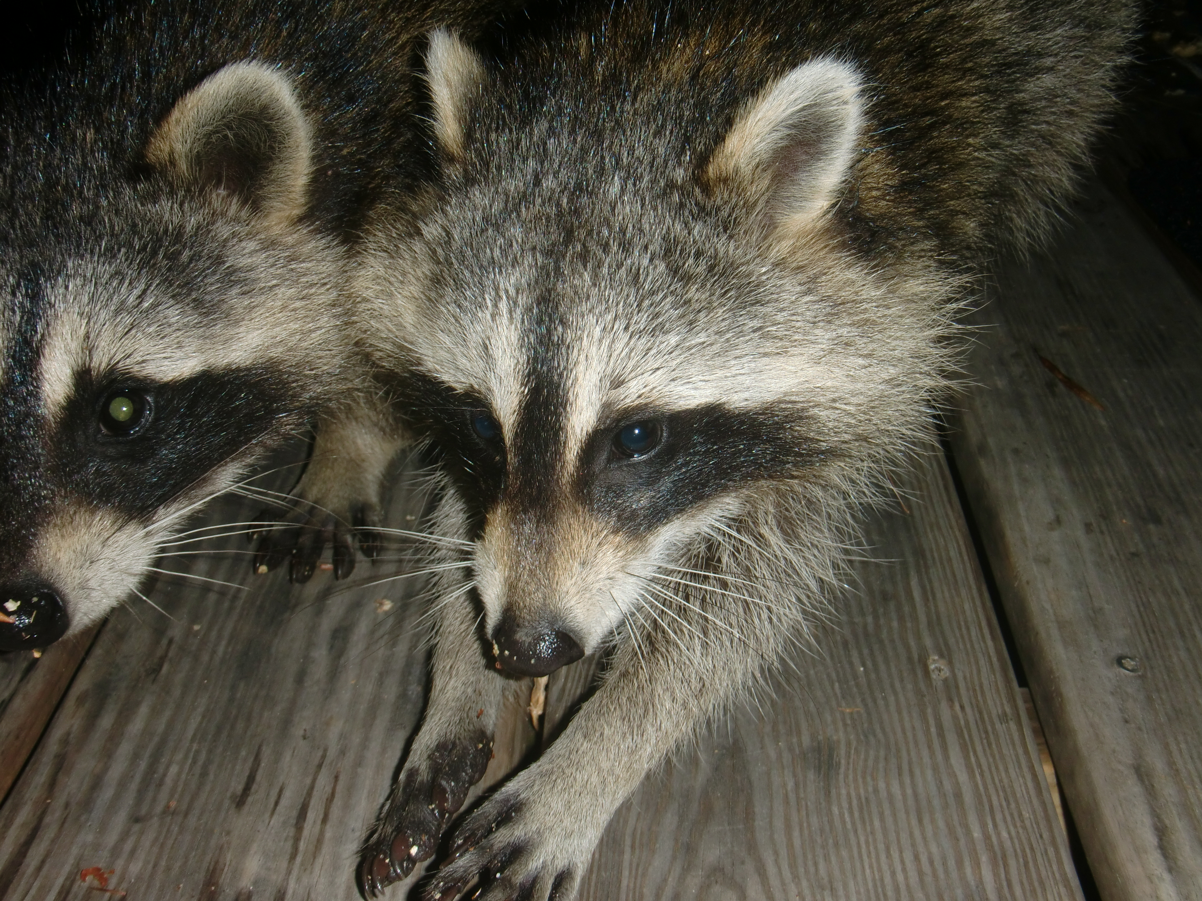 Two young raccoons captured up close on a deck at night in Bradford, NH, USA. These individuals are part of a group of 4 kits who lost their mother in late summer. In this rural area they have balanced their loss by socializing with a human neighbor. Bits of peanut shells stick to their nose and paws -- a treat earned from solving various locked container puzzles.